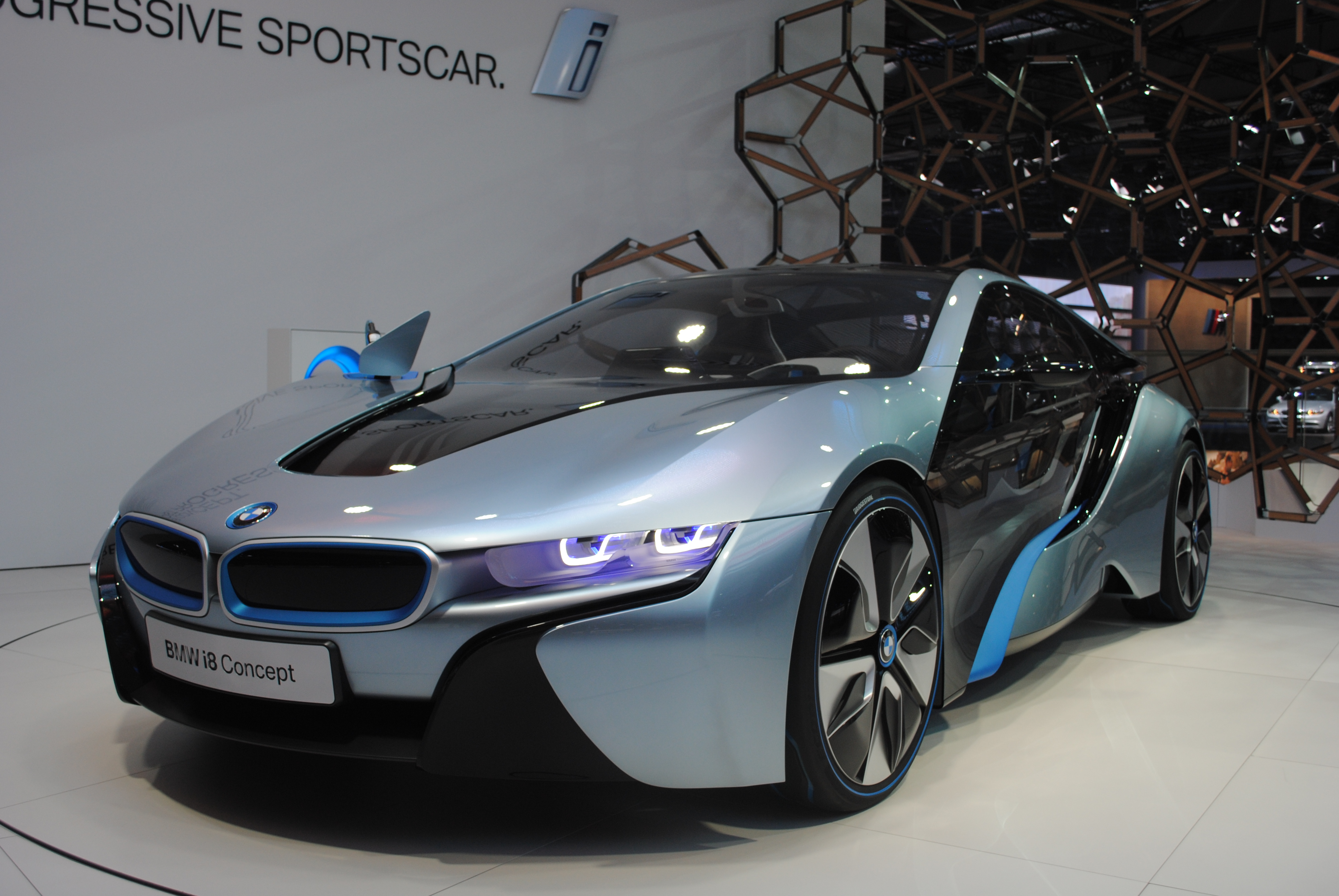 BMW i8 at the Frankfurt Motor Show 2011. For more info and images please check